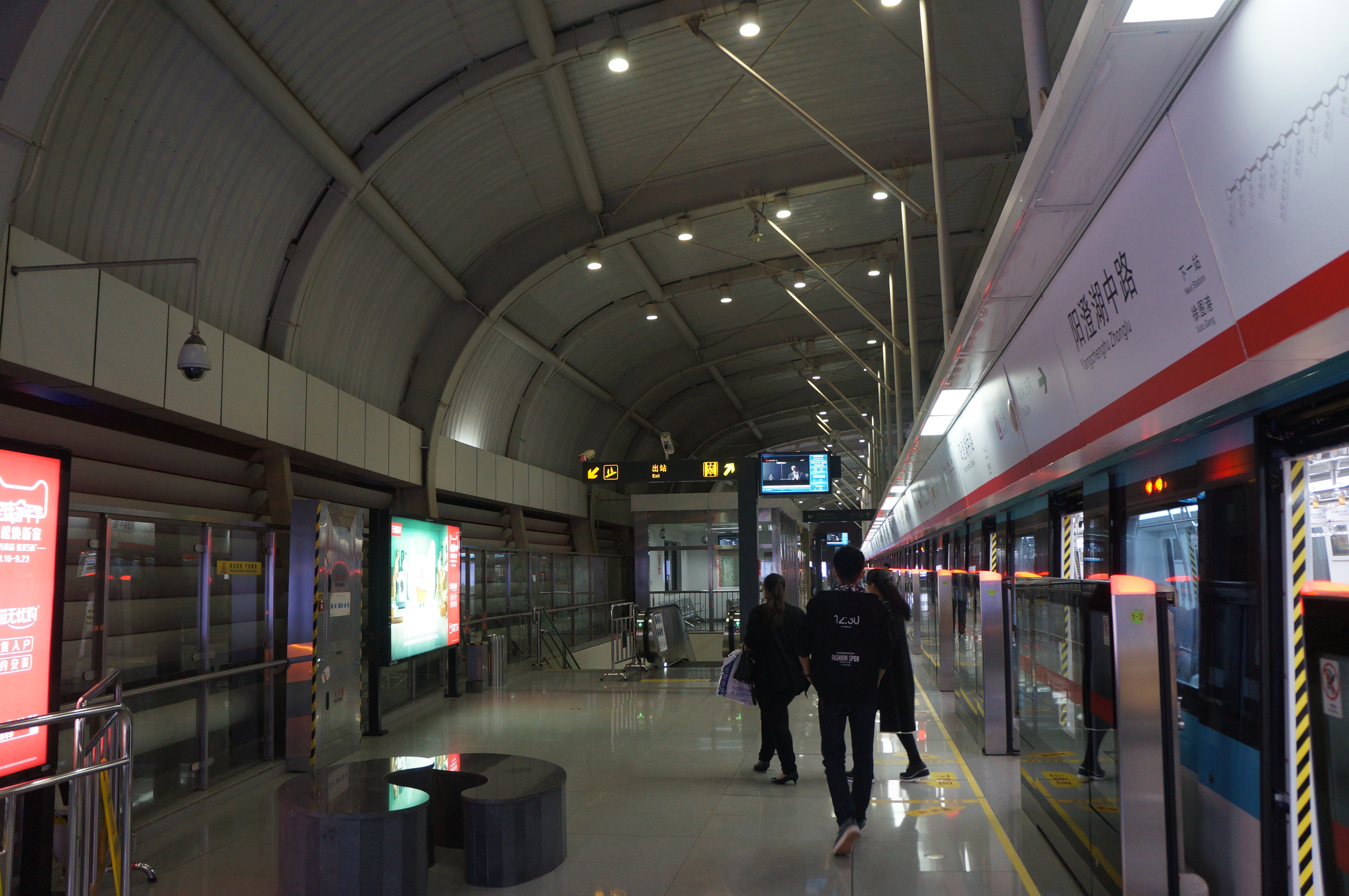 201610 Yangchenghu Zhonglu Station